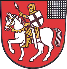 Coat of arms of Hohenkirchen